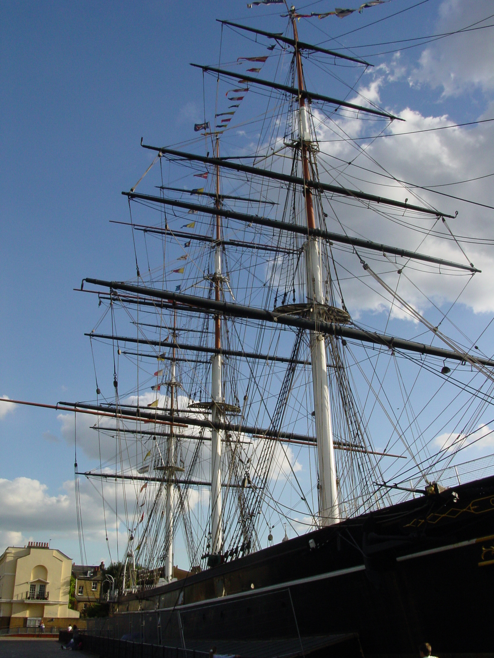 Cutty Sark in London